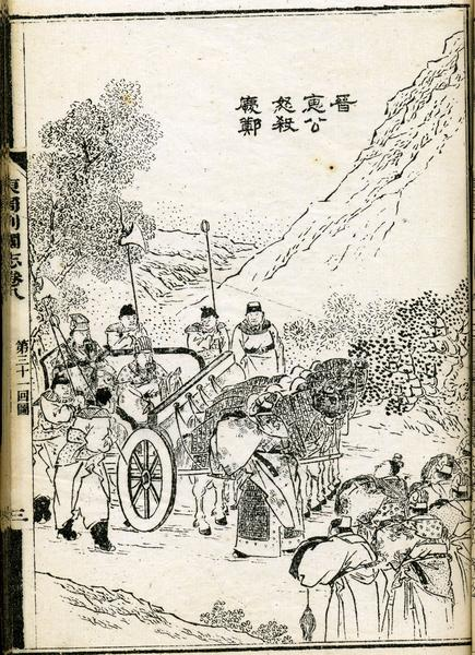 "Title in